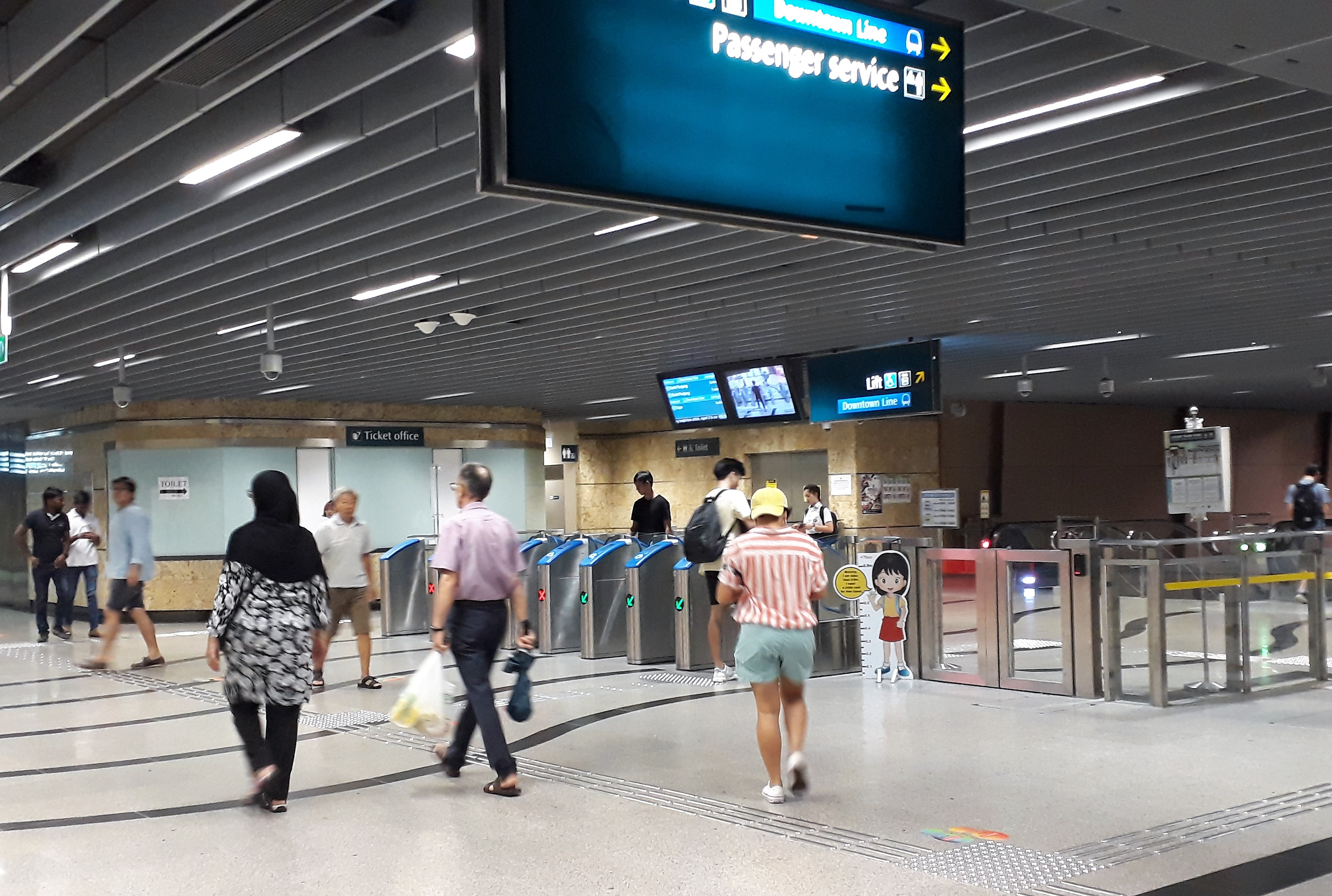 DT5 Beauty World MRT Concourse